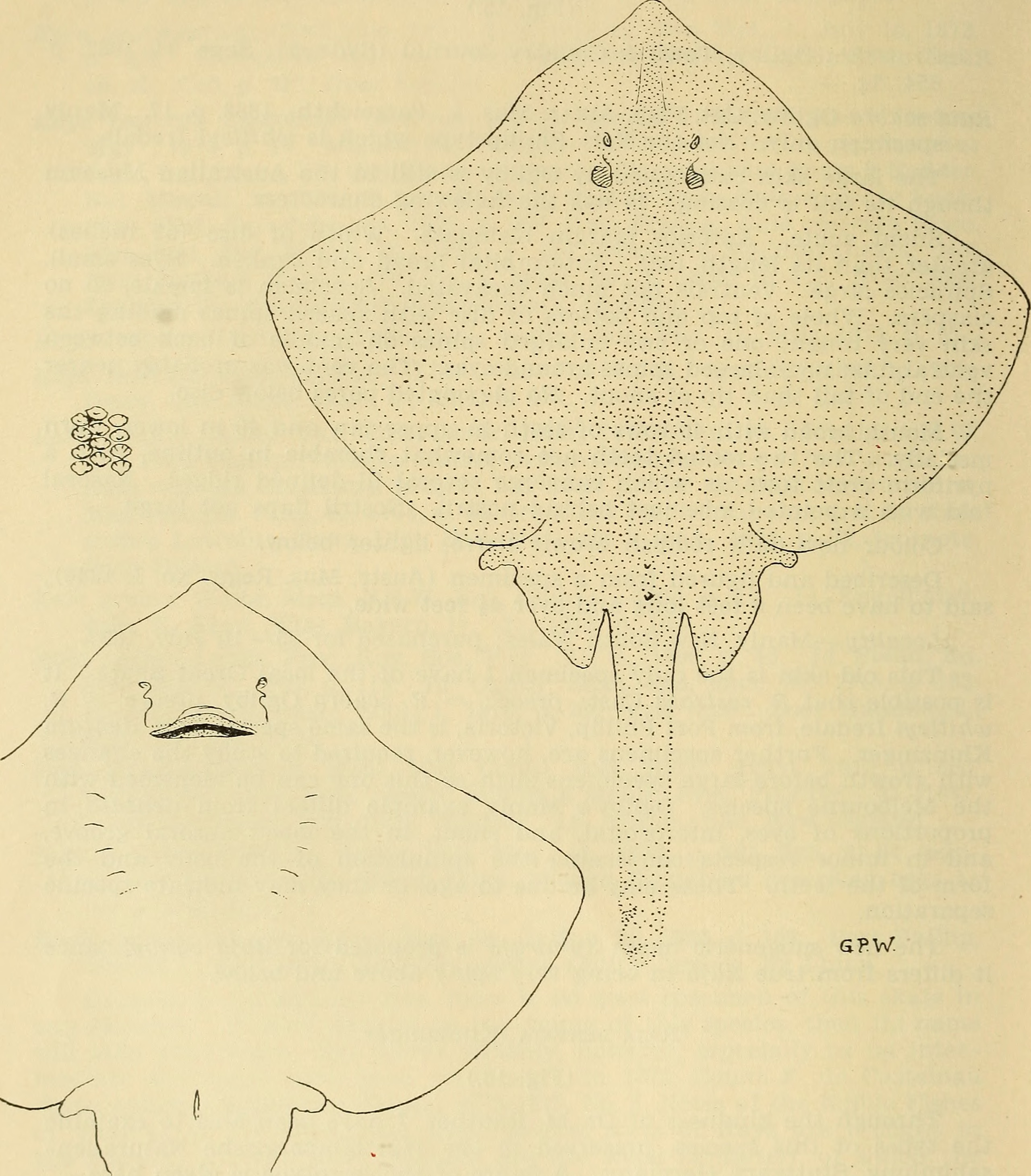 Title: The Australian zoologist Year: 1914 (1910s) Authors: Royal Zoological Society of New South Wales; Royal Zoological Society of New South Wales. Proceedings Subjects: Zoology; Zoology; Zoology Publisher: (Sydney, Royal Zoological Society of New South Wales) Text Appearing Before Image: 252 TAXONOMIC NOTES ON SHARKS AND RAYS. Text Appearing After Image: G?W Fig. 15. Raja (Spiniraja) ogilbyi Whitley. Holotype from Manly, New South Wales (Austr. Mus., Regd. No. 1.1346). Tail reconstructed. Inset shows teeth G. P. Whitley del.